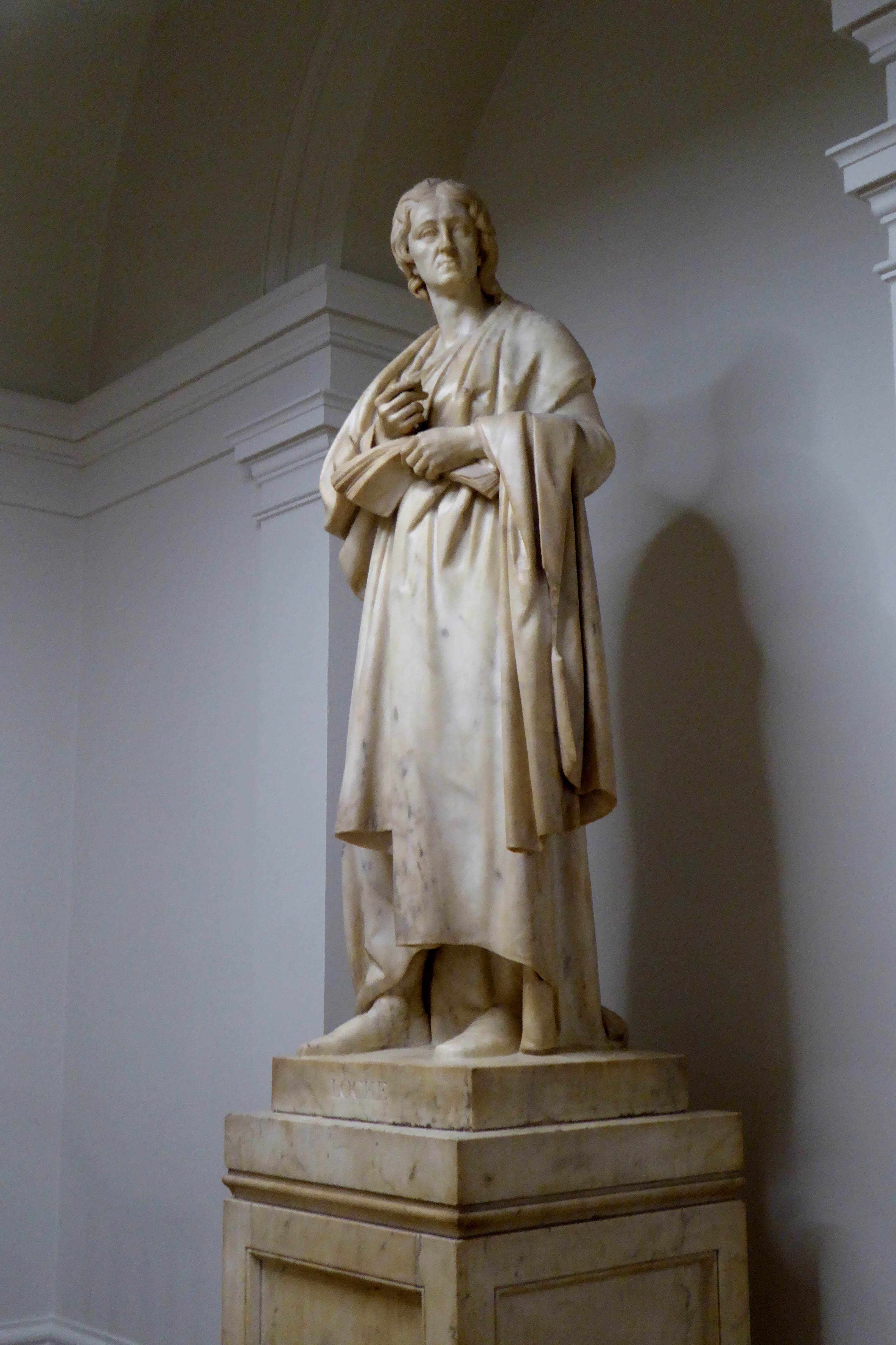 Richard Westmacott's marble sculpture of John Locke (c.1808) on display in the University College London (UCL) main building.